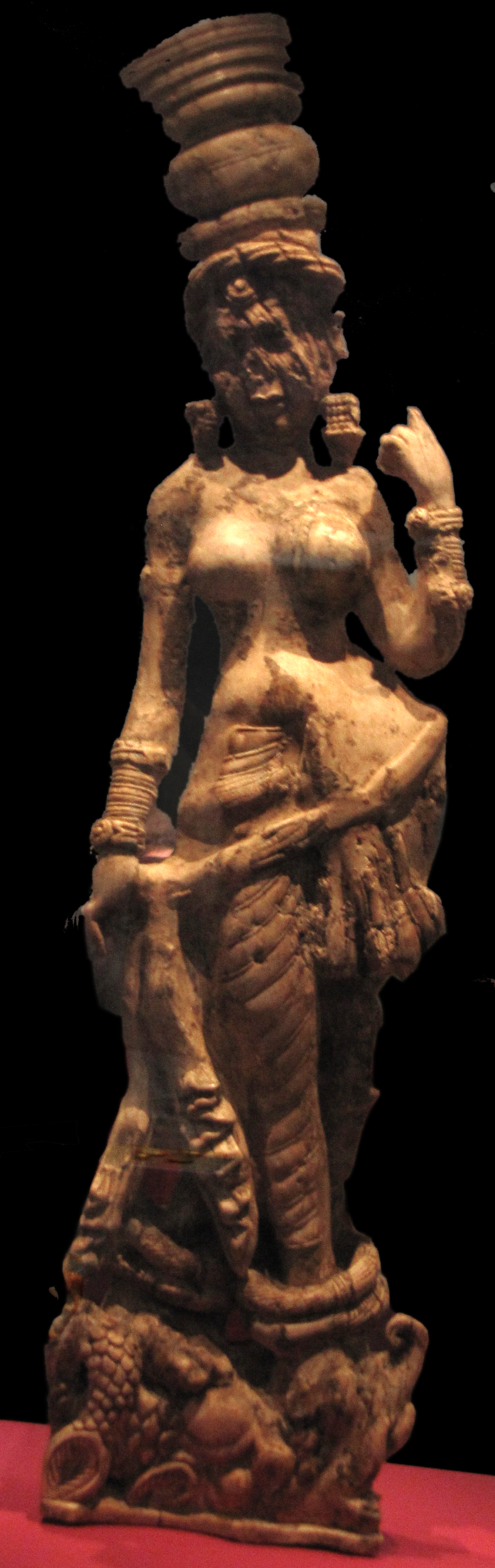 Woman standing on a makara, Begram, Room 10, 1st century A.D., Ivory, National Museum of Afghanistan, Personal photograph 2011, British Museum.